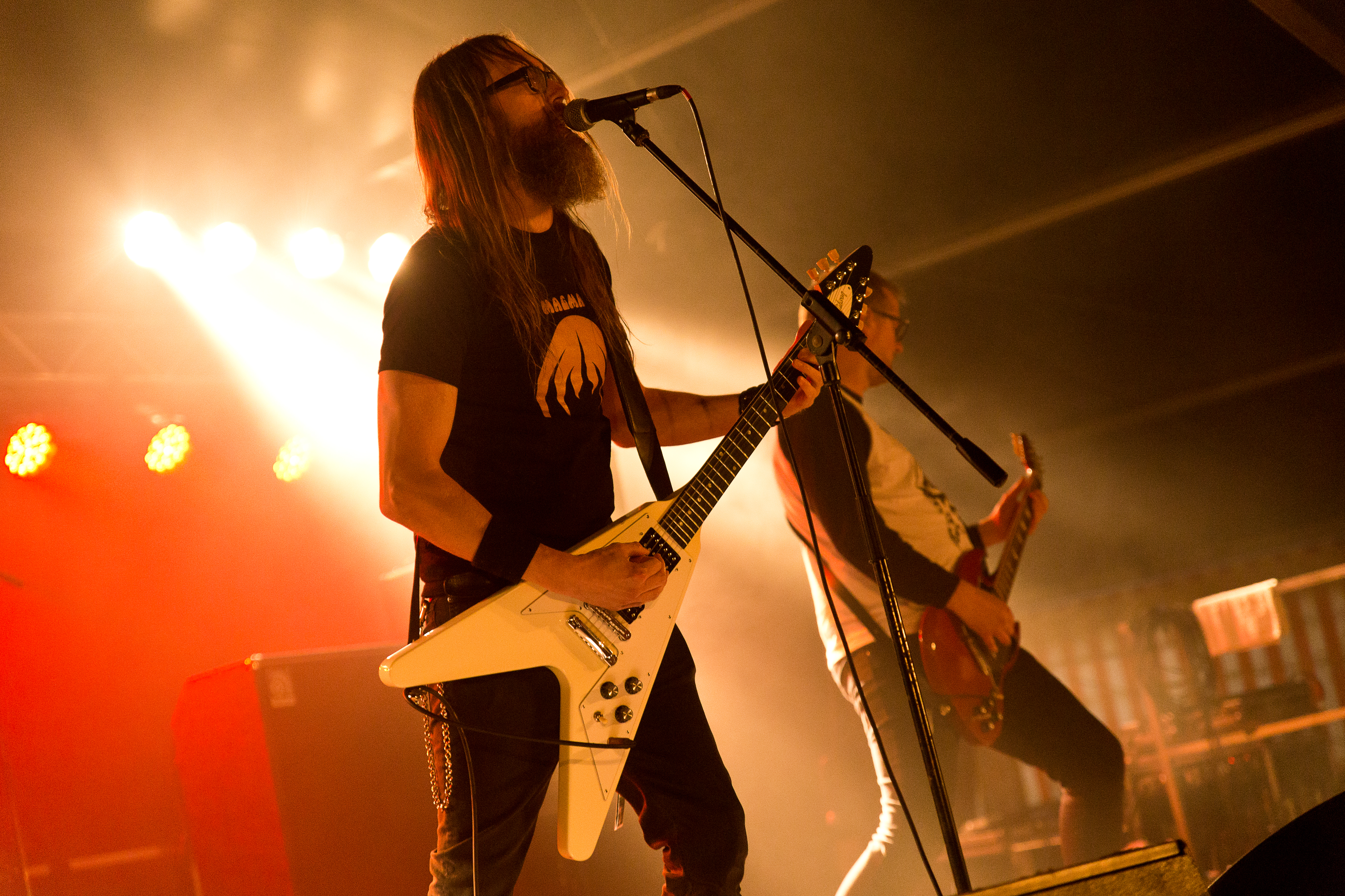 The Swedish death metal band Bombs of Hades at the Party.San Metal Open Air 2016 in Obermehler-Schlotheim/Germany